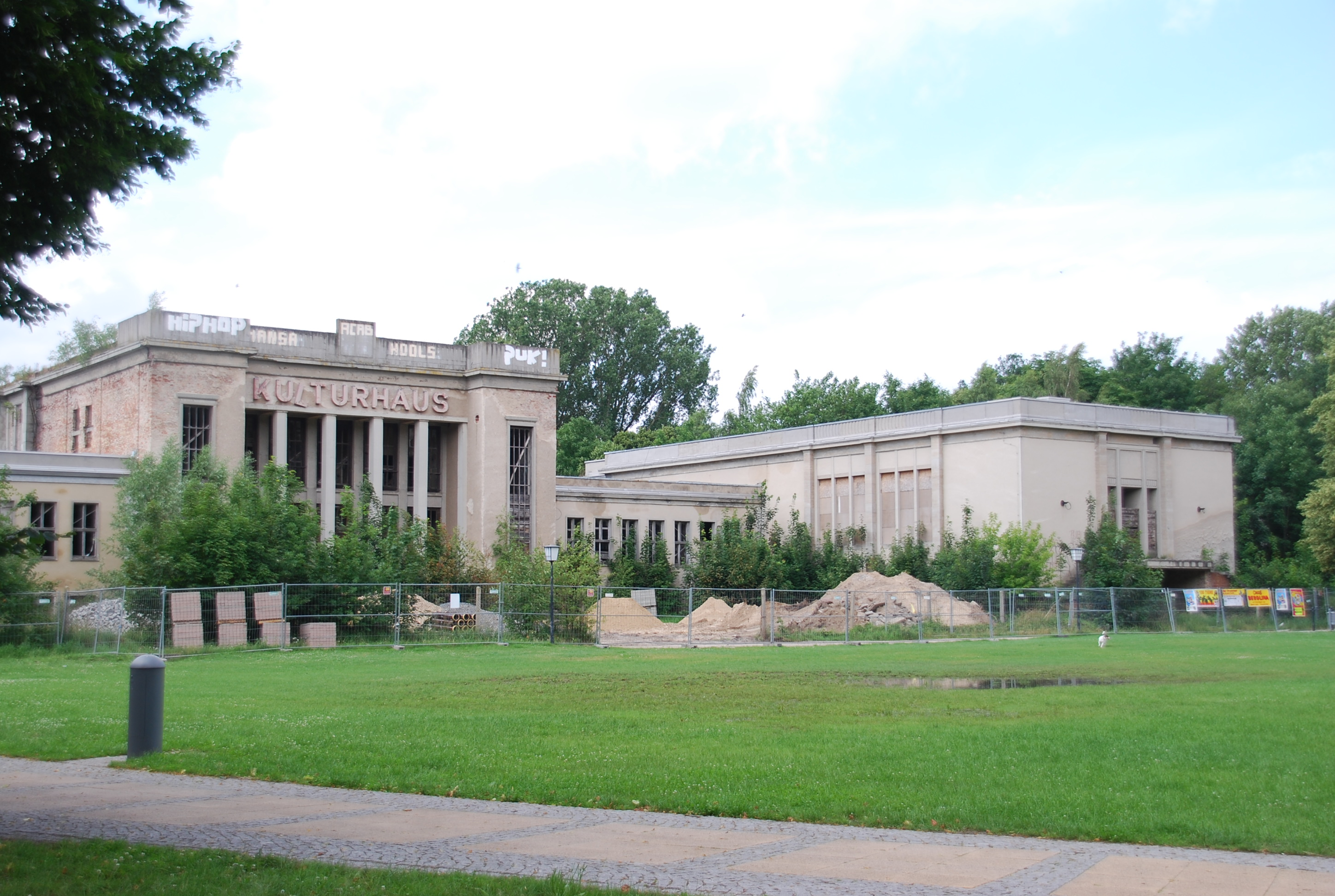 Zinnowitz (Usedom), Kulturhaus